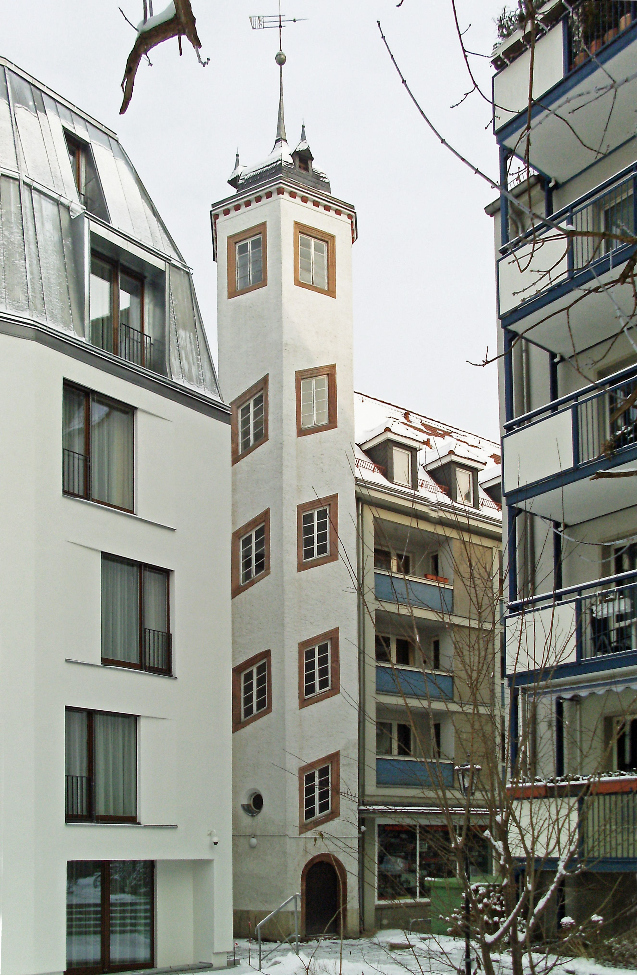 Renaissance stair-tower of the destroyed Golden Flag house in Leipzig, Burgstrasse 4